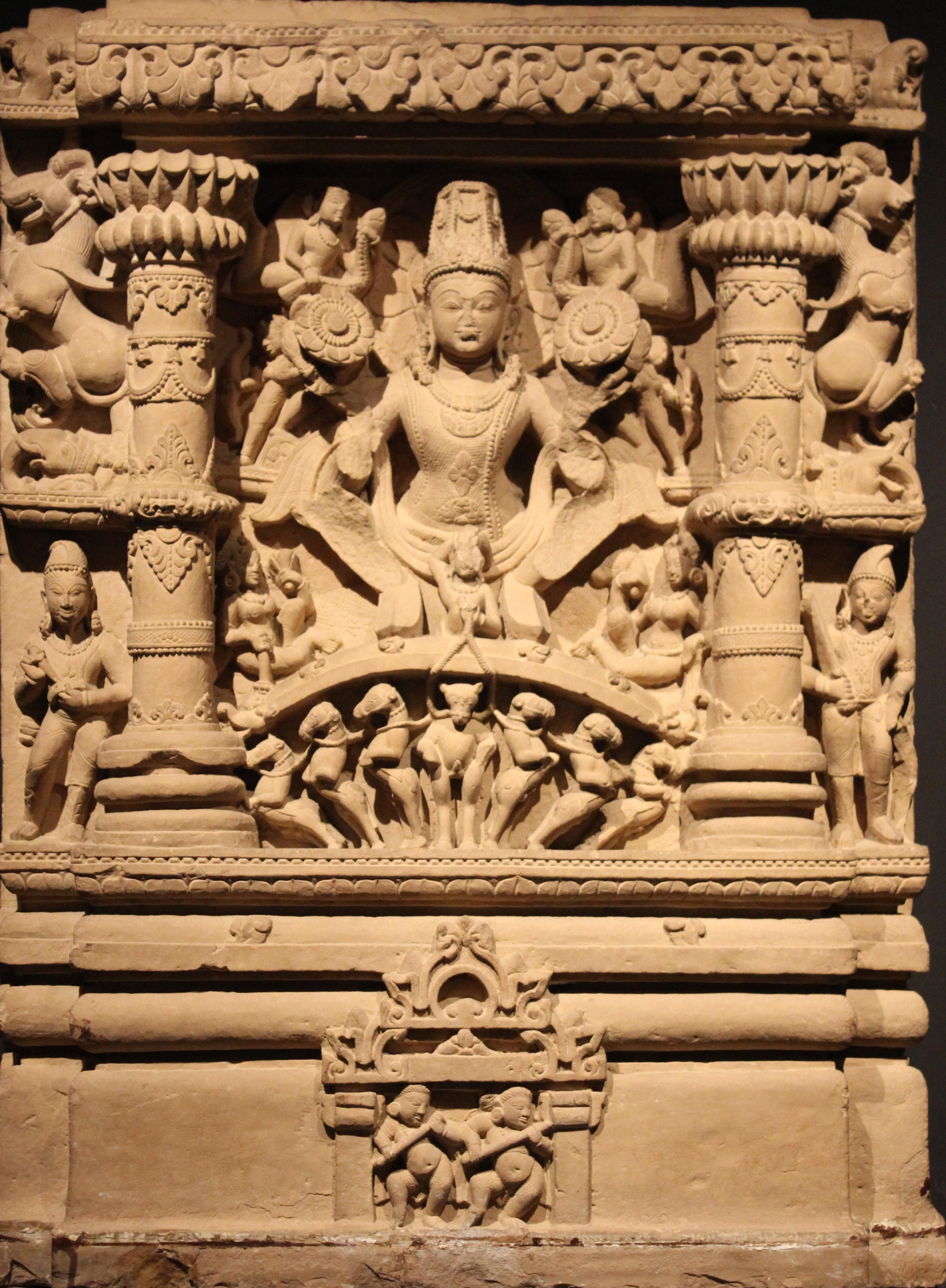 Lord Surya